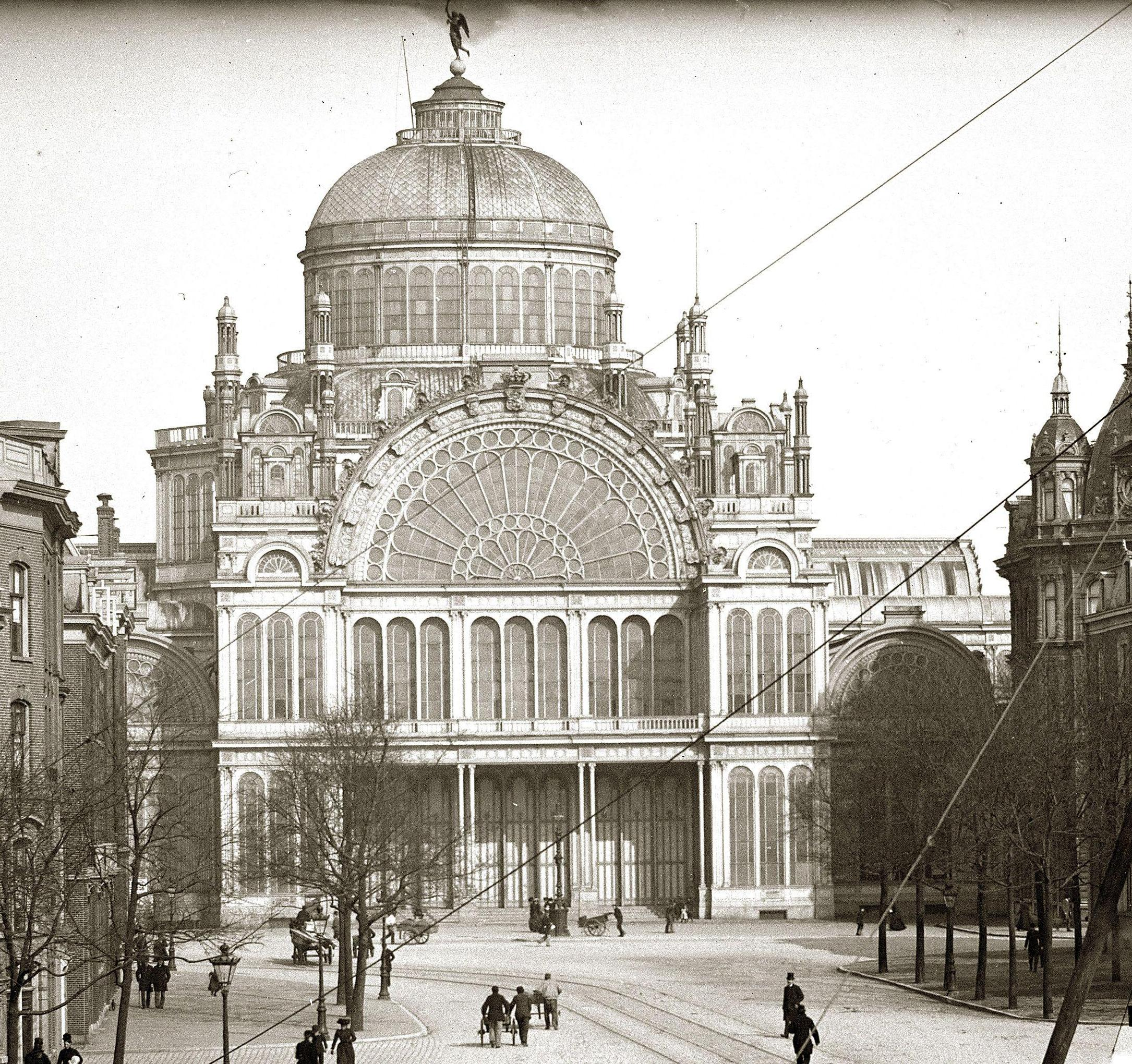 'Palace of the People' in Amsterdam. Photo dates back to about 1890 and is made by Jacob Olie who died in 1904. The photo can be found in de Amsterdam City Archive. The 'Palace of the People' was destroyed by a fire in the beginning of the 20th century.